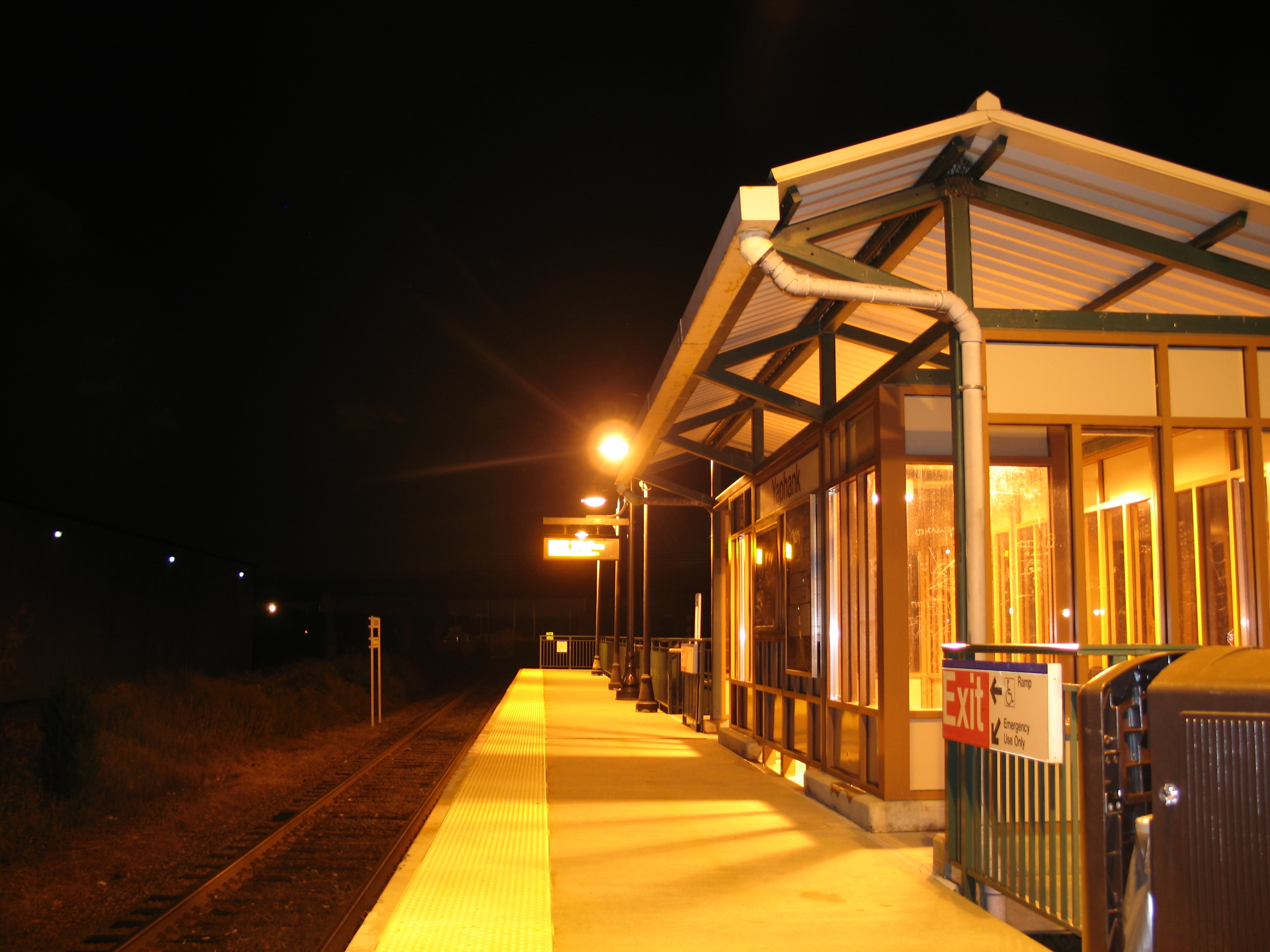 Looking west on the Yaphank station platform on 10-28-06.